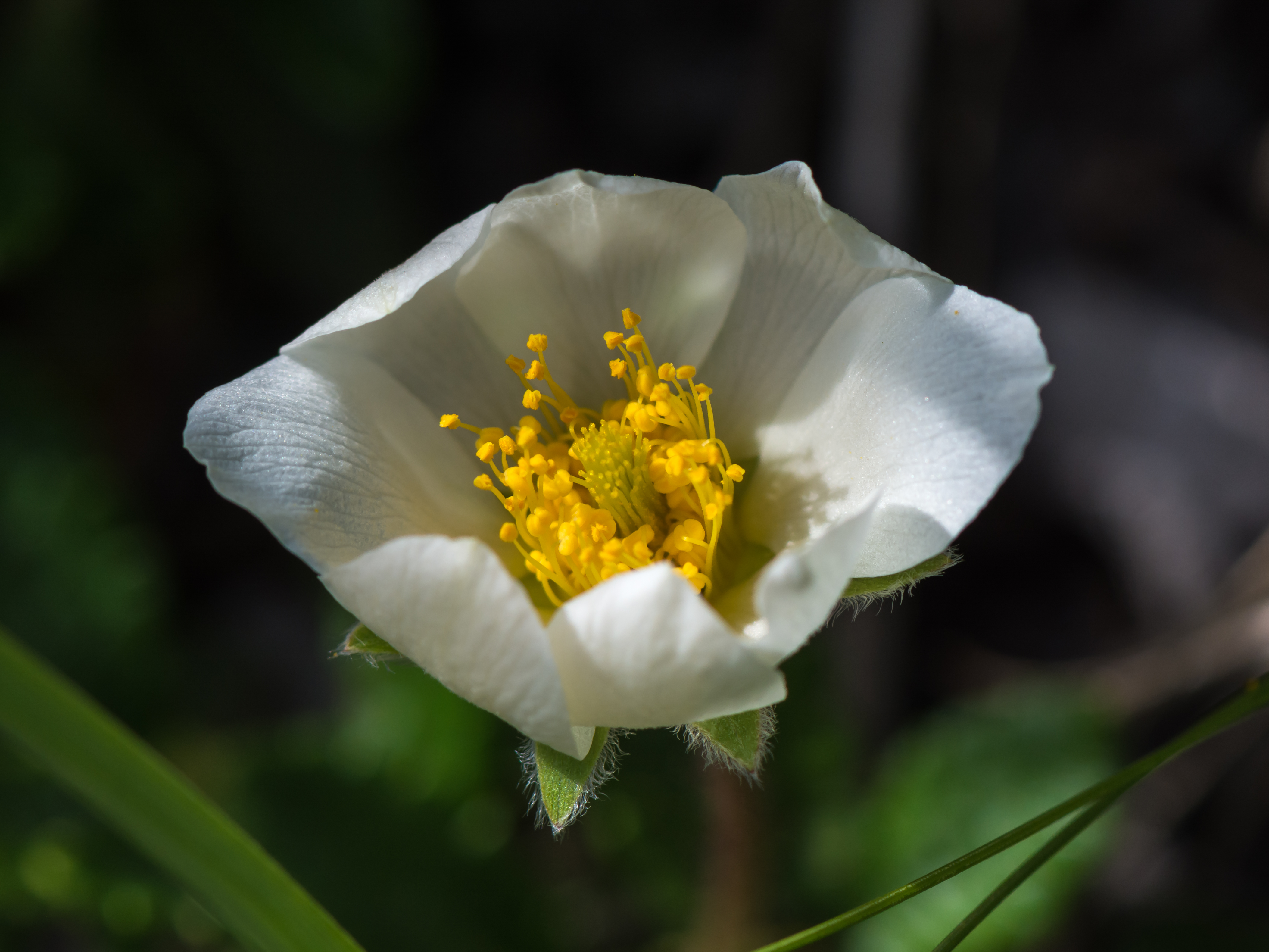 Dryas octopetala found in the Ötscher Canyon, nature park Ötscher-Tormäuer, Lower Austria